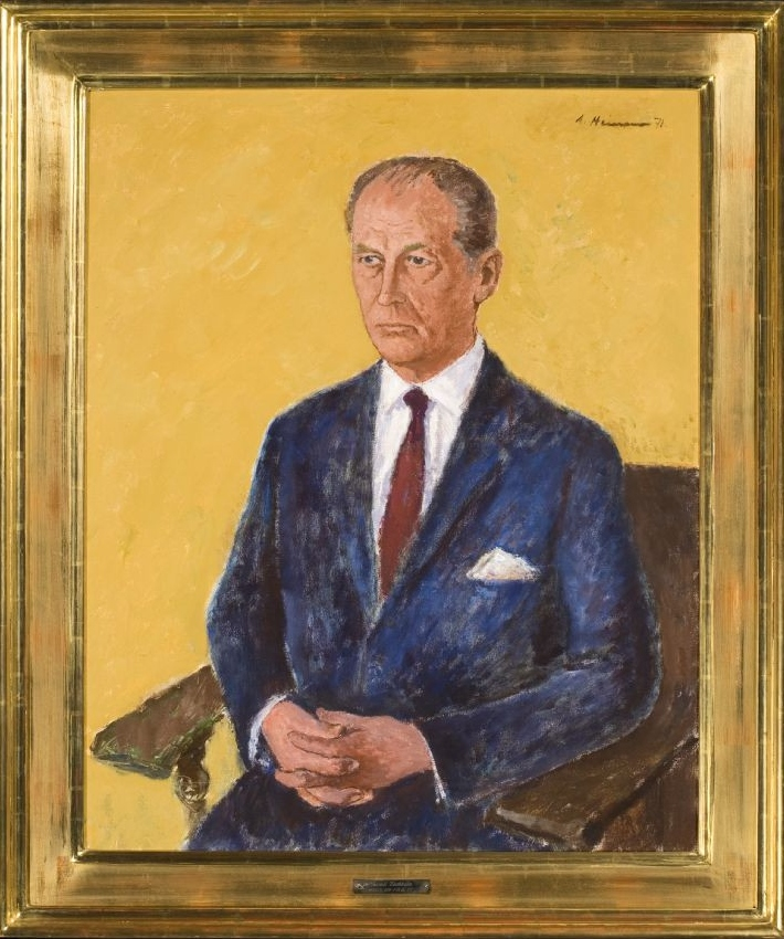 Portrait painting of the Finnish engineer and professor Torsti Verkkola (1909–1977).